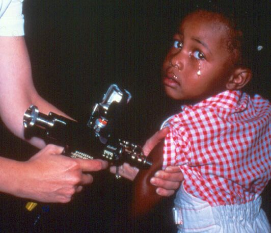 Ped-O-Jet-TearyChild-crop